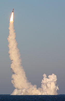 Today, as part of the state flight test program, another successful launch of the Bulava sea-based intercontinental ballistic missile was launched from the board of its full-time carrier - the Yuri Dolgorukiy nuclear-powered missile cruiser.